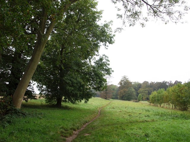 Footpath towards Canons Wood Banstead Footpath 38b runs across the edge of a large circular field, on the right, surrounded by trees - the straight row of young trees to the right rather spoils the effect of the circle.